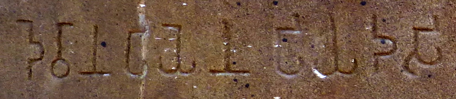 Devanampiyena Piyadasi in the Lumbini Edict of Ashoka